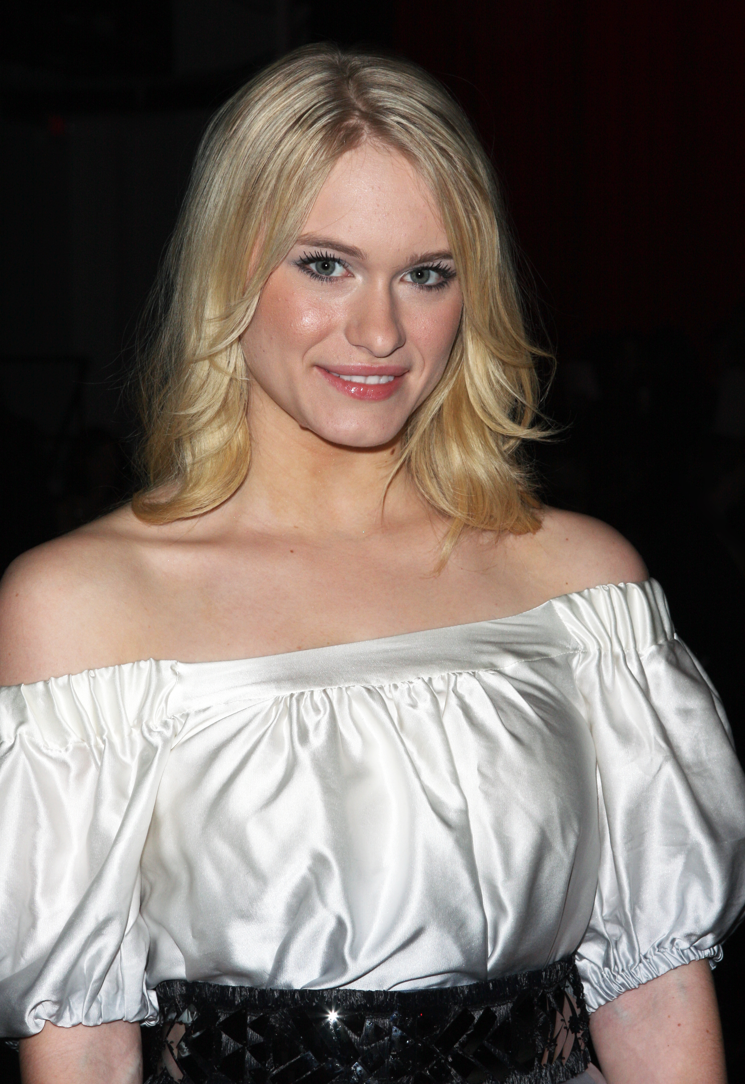 Description: Soap star actress Leven Rambin at the 28th Annual Ford Supermodel of the World held on January 16, 2008 at Terminal 5 in New York, NY United States.